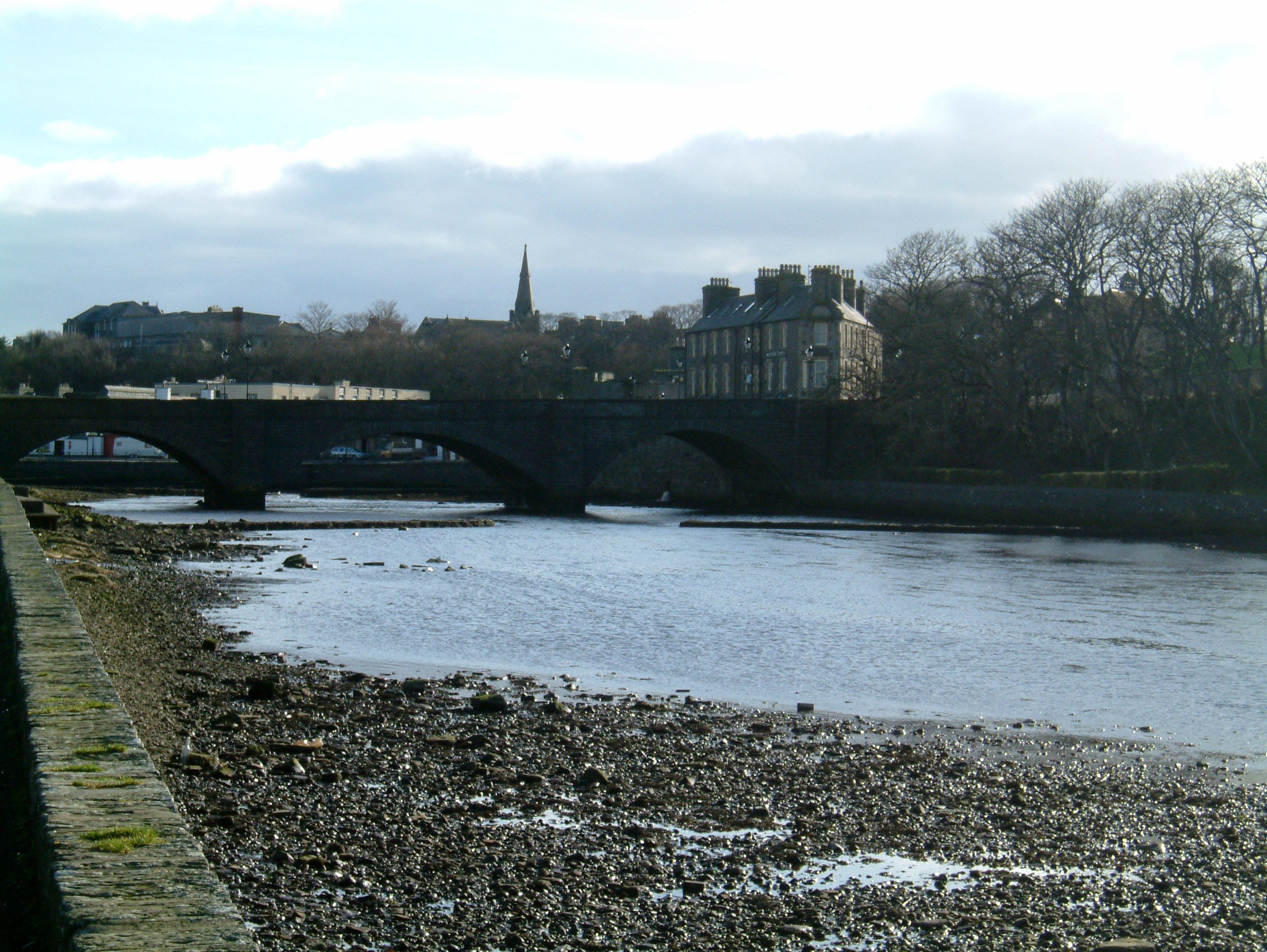 The Wick River and Bridge Street.